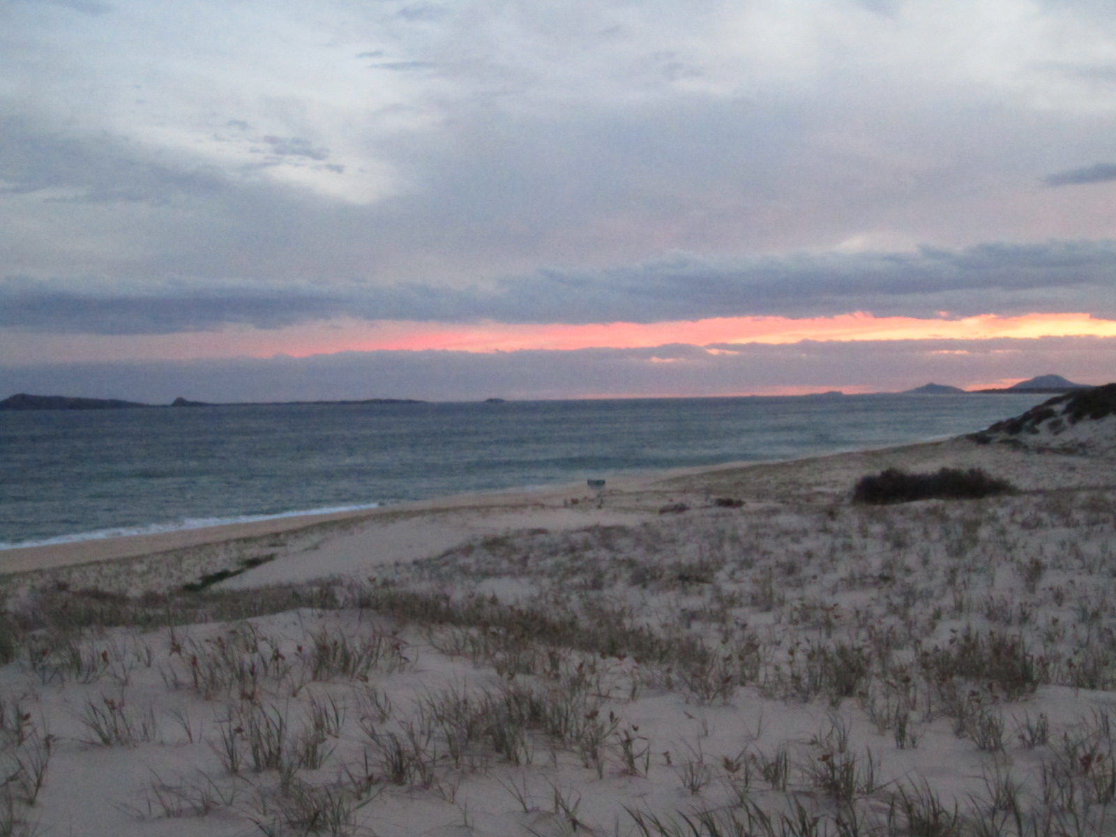 sunset, Dee's Corner beach